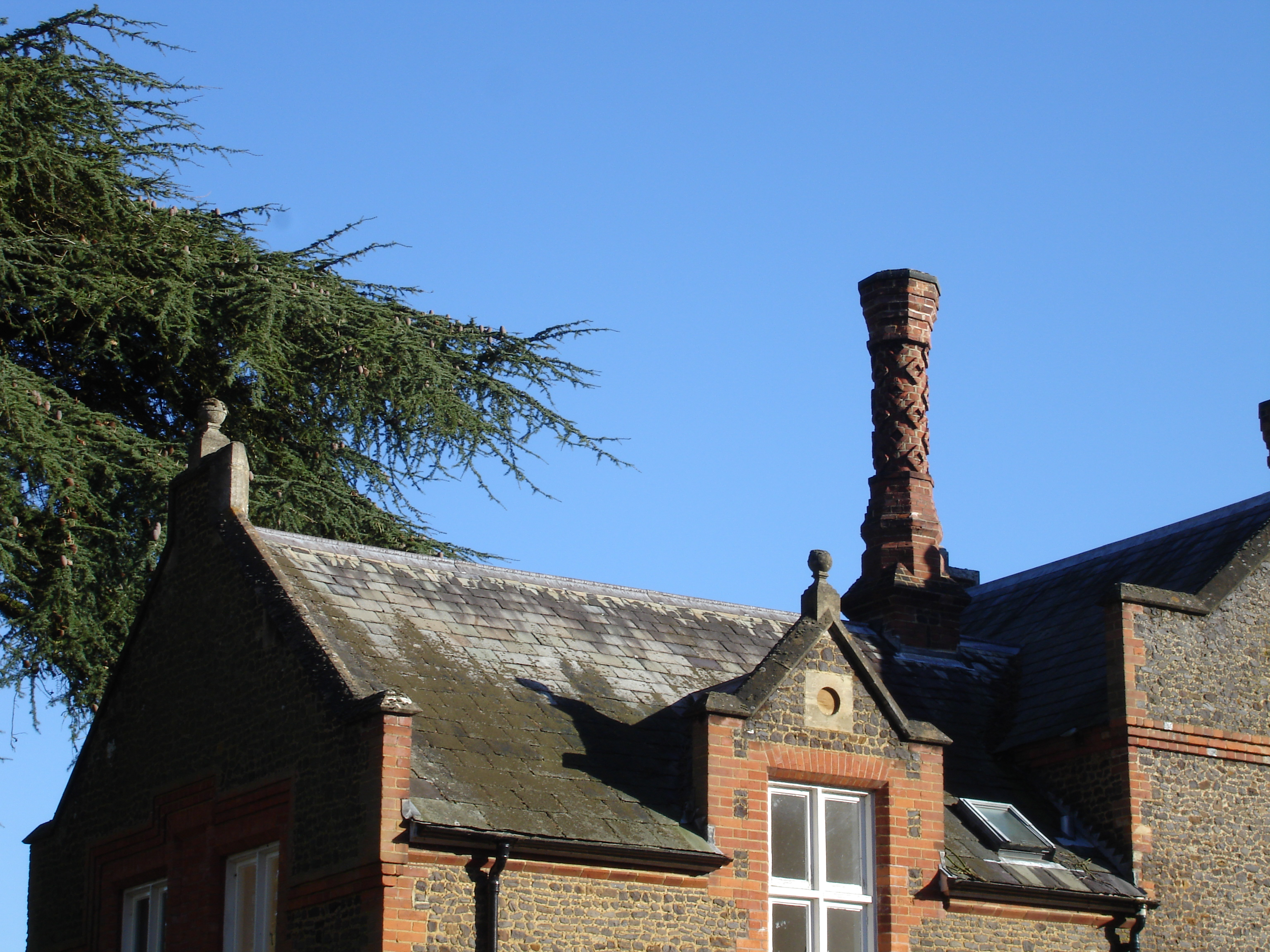 S Knights, my photo, Mar 2007